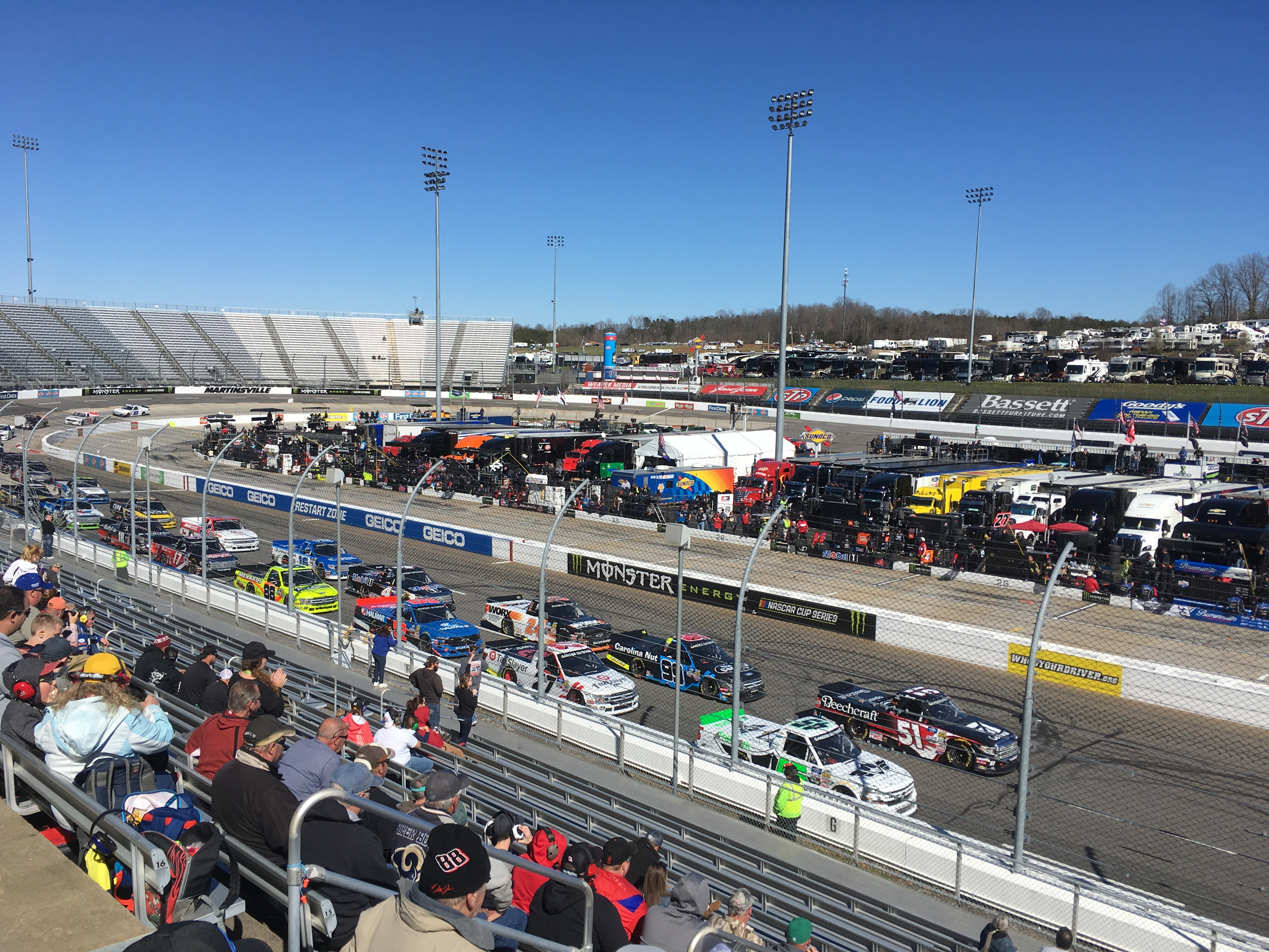 The 2019 TruNorth Global 250 at Martinsville Speedway viewed from the frontstretch. Kyle Busch (#51) leads Ross Chastain (#45) and the rest of the field following a restart.